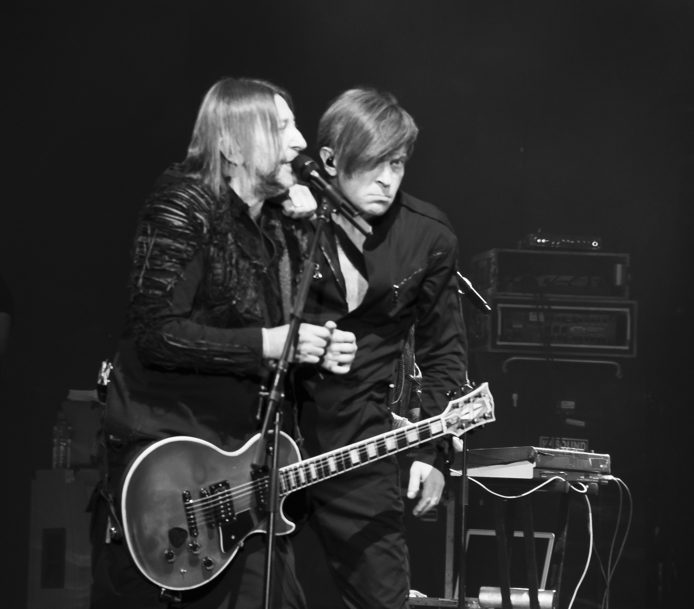 B2band, at Moscow stage VTB Ice Palace.